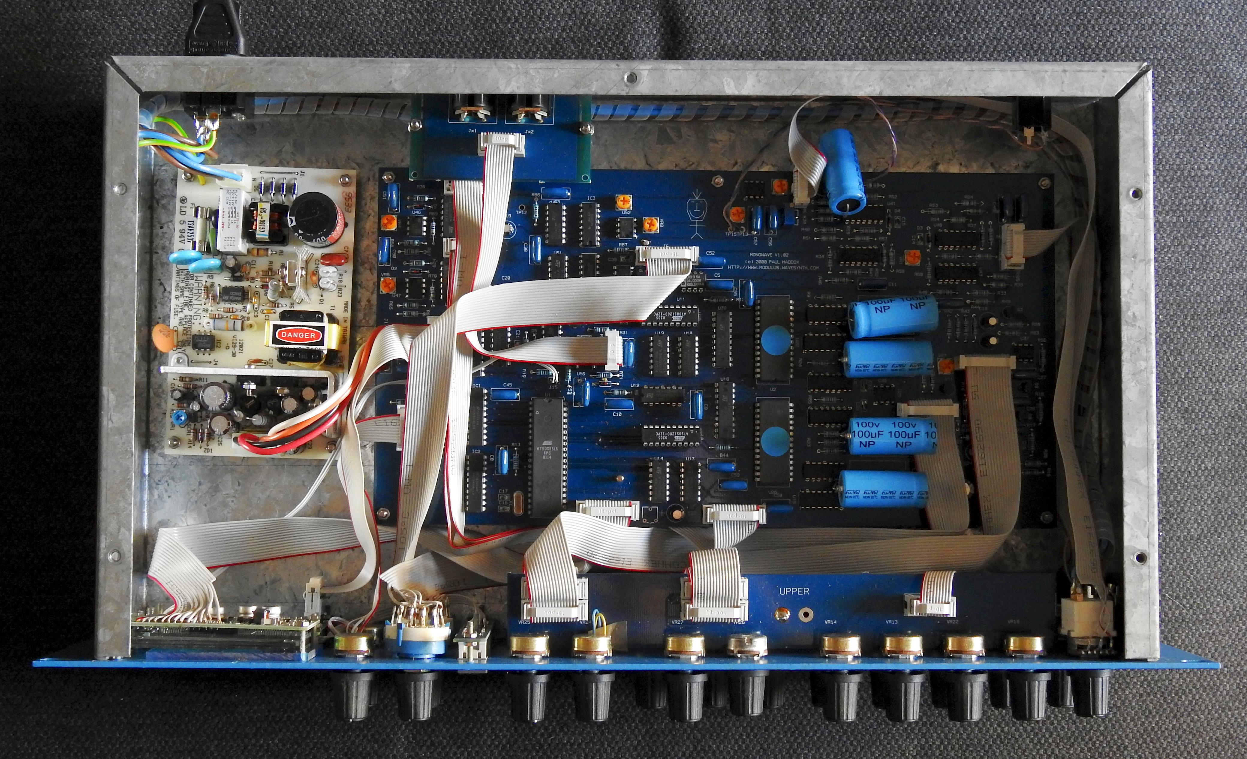 The view inside the Modulus MonoWave #9